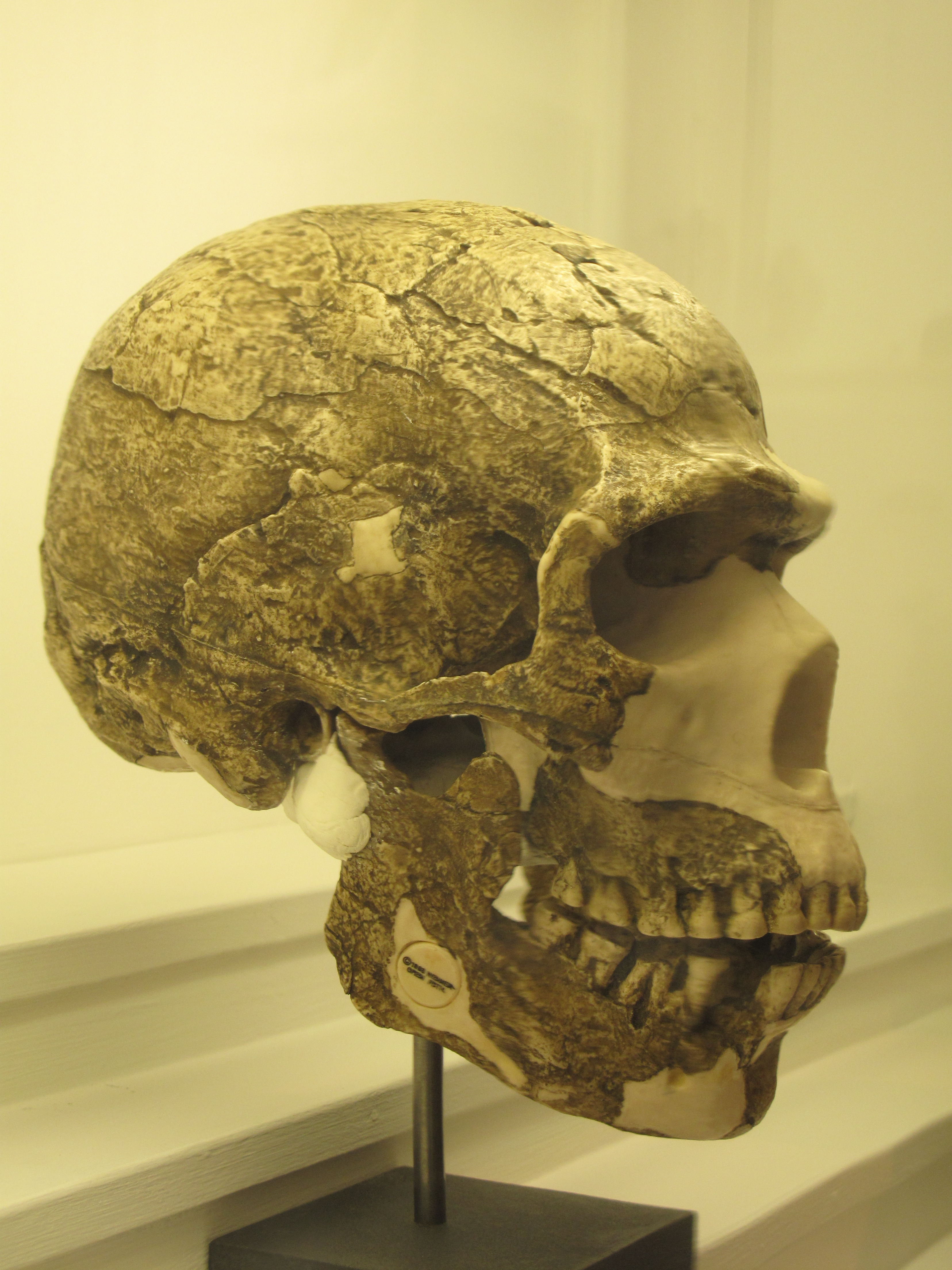 On display at Lausanne Natural History Museum in Rumin palace Homo neanderthalensis